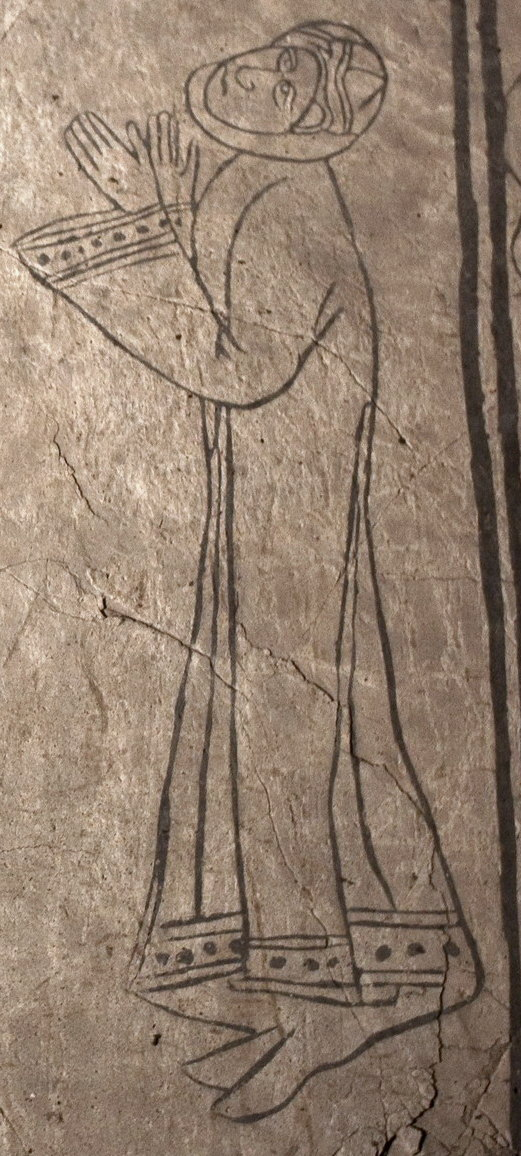 Helen of Znojmo